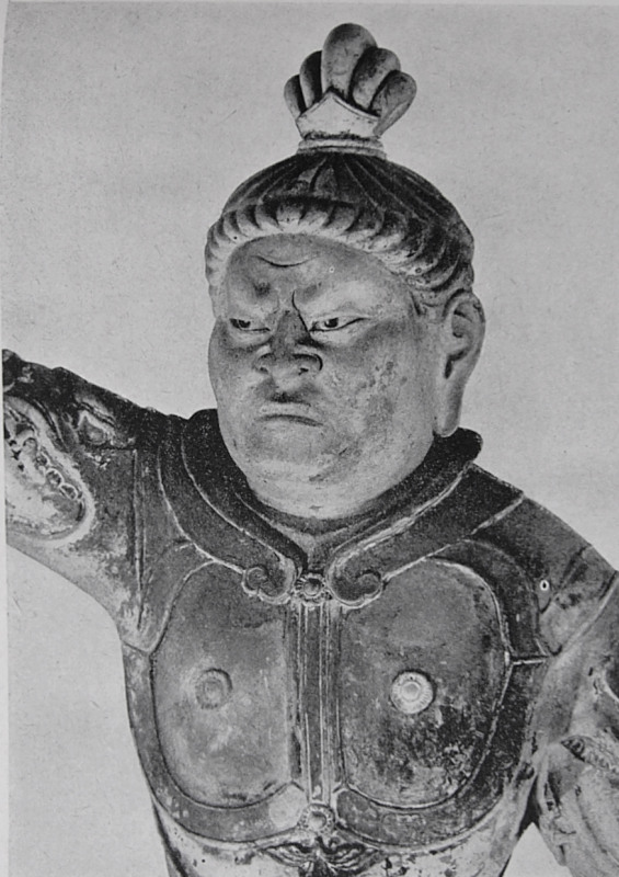 TAMONTEN(Vaisravana) Clay Statues coloured, whole 162.4cm height, Kaidanin of Todaiji Temple, Nara 8th century